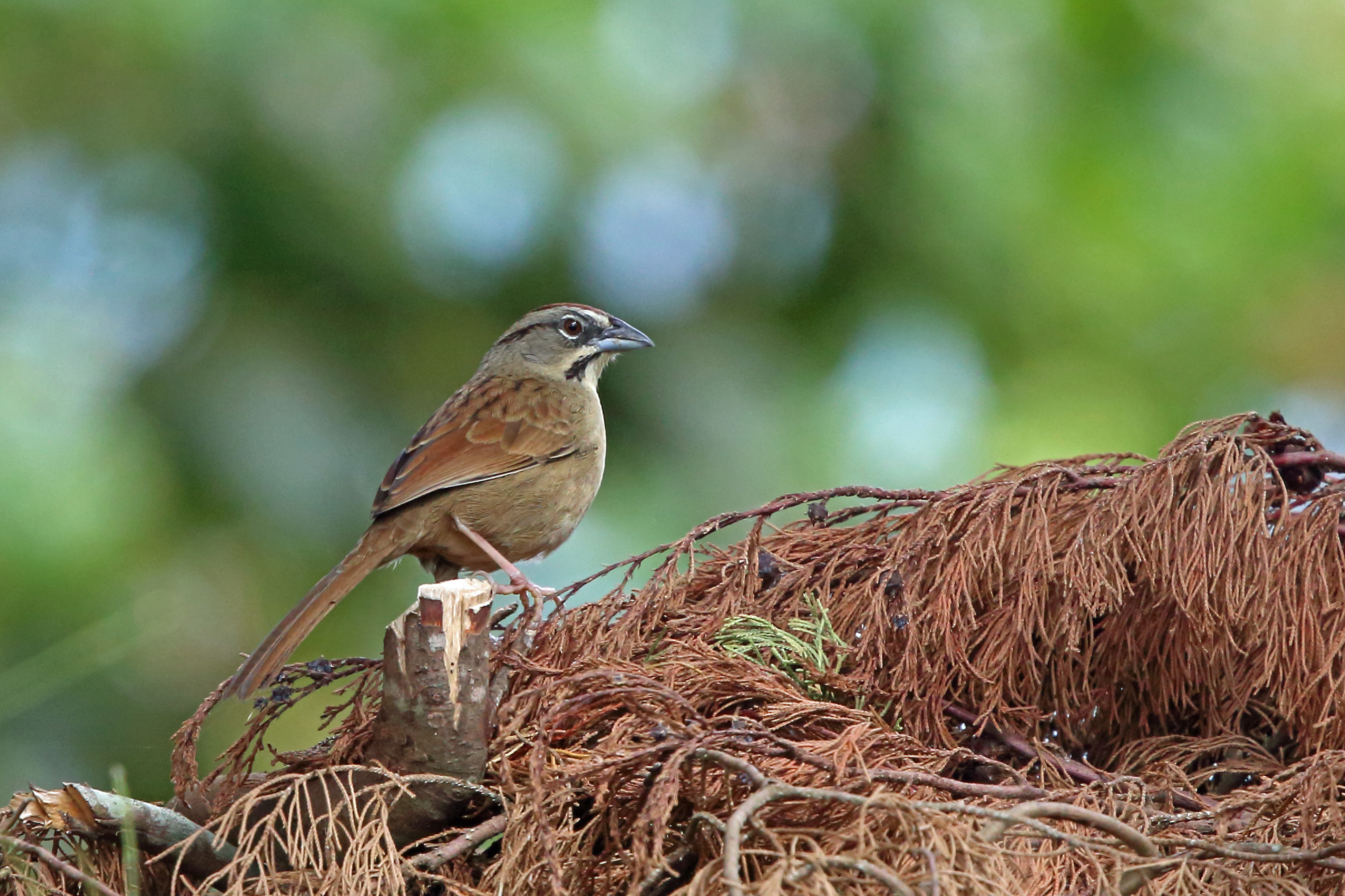 Rusty Sparrow, El Triunfo, Mexico